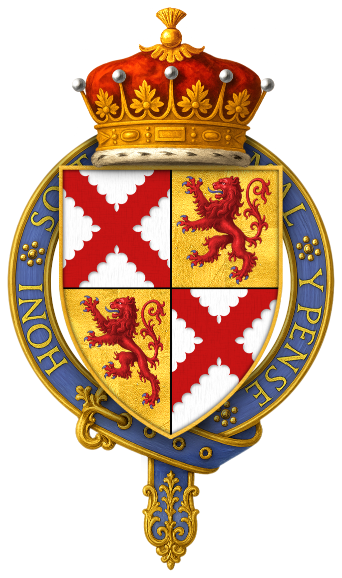 Sir John Tiptoft, 1st Earl of Worcester, KG HOPE, W. H. St. John, The Stall Plates of the Knights of the Order of the Garter 1348 – 1485: A Series of Ninety Full-Sized Coloured Facsimiles with Descriptive Notes and Historical Introductions, Westminster: Archibald Constable and Company LTD, 1901. “ Plate LXVI - Sir John Tiptoft, Lord Tiptoft and Earl of Worcetser, K.G. 1461-1470…The shield is quarterly: 1 and 4: Argent, a saltire engrailed gules (Tiptoft); 2 and 3: Or, a lion rampant gules (Powys). ” Worcester's stall plate remains intact within the seventh stall, on the south side of the chapel.